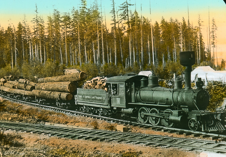 MP-0000.25.885 Logs being transported by the Comox & Campbell Lake Tramway Co., Vancouver Island, BC, about 1925 Anonyme - Anonymous About 1925, 20th century Notman photographic Archives - McCord Museum MP-0000.25.885 Grumes transportées par la Comox & Campbell Lake Tramway Co., île de Vancouver, C.-B., vers 1925 Anonyme - Anonymous Vers 1925, 20e siècle Archives photographiques Notman - Musée McCord To see the image file on the McCord Museum website, click on the following link: To see the image file on the McCord Museum website, click on the following link: Pour voir la fiche descriptive de cette photographie sur le site Web du Musée McCord, cliquer le lien suivant